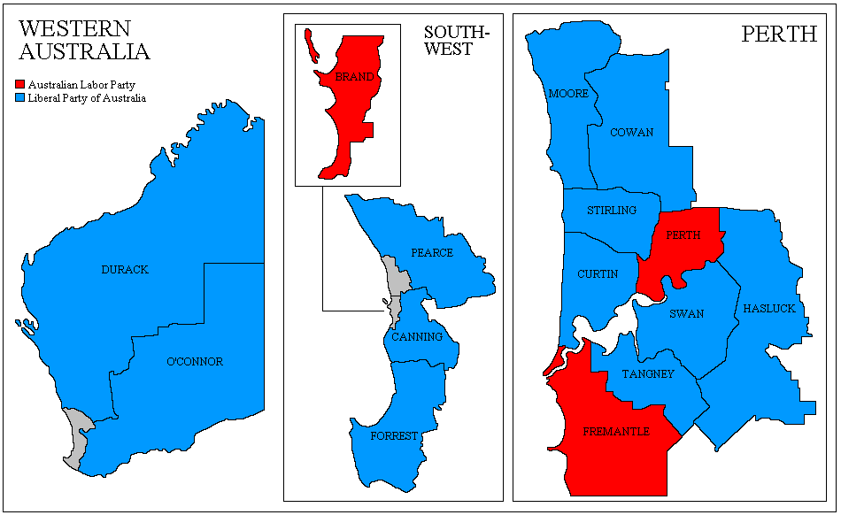 Map of electorates at Australian federal election, 2013